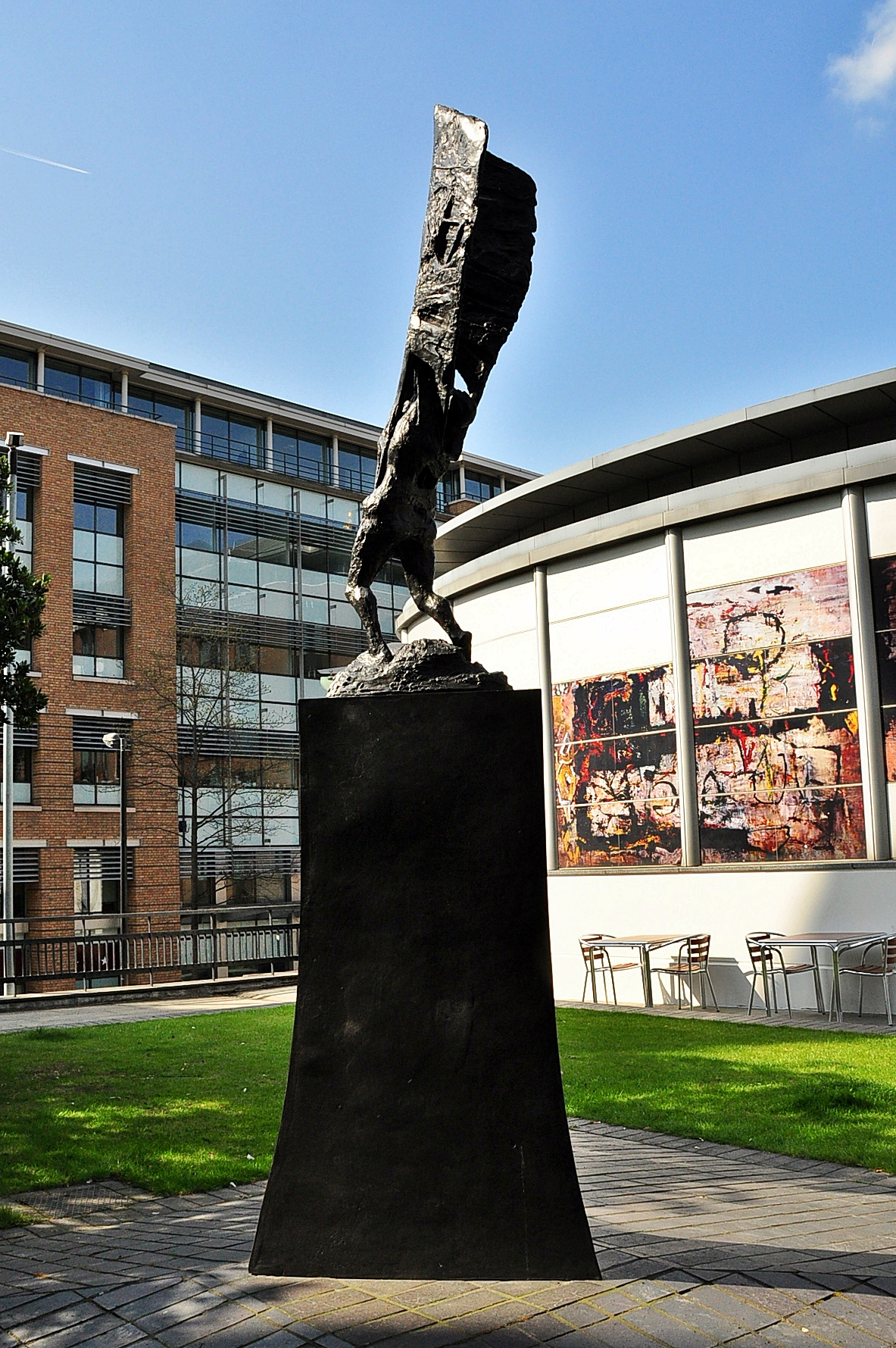 Icarus statue designed by Michael Ayrton, located in Old Change Court in City of London.